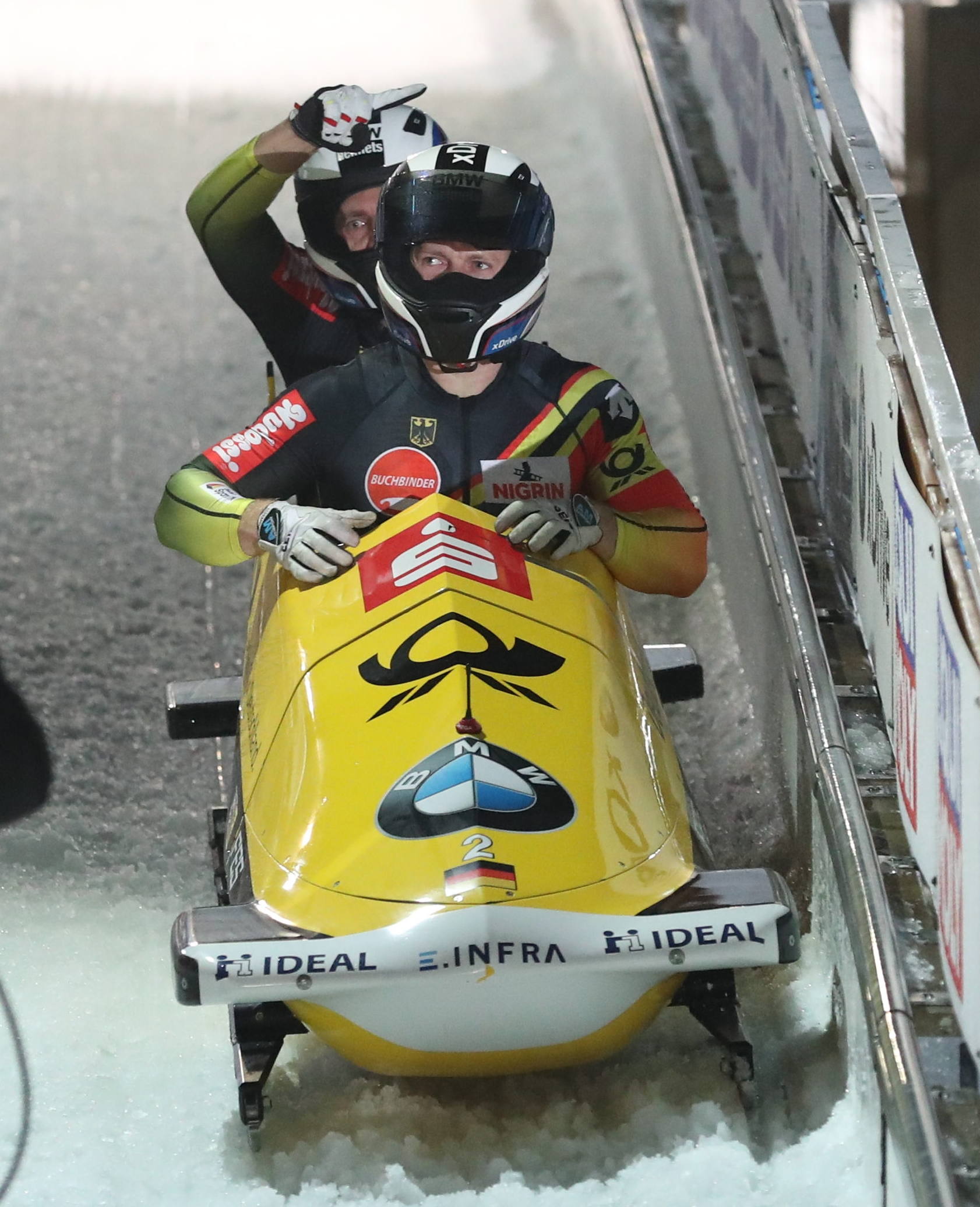 2-man Bobsleigh Men's World Cup race at the 2018/19 Bobsleigh World Cup in Altenberg